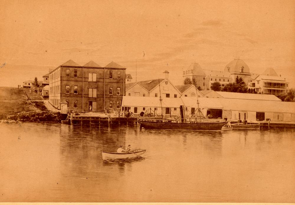 Sketch of the Brisbane River looking towards the wharf and buildings on Short Street, Brisbane, ca. 1889 The sketch shows a view from the Brisbane River looking towards Margaret Street and the wharf. Bulk stores and the tailoring department of D. L. Brown and Company, which fronted onto Short Street, are clearly visible in the foreground. Parliament House and the Parliamentary Lodge can be seen in the background to the right. There is a small rowing boat in the middle of the river, a steamship and smaller boats moored at the wharf.